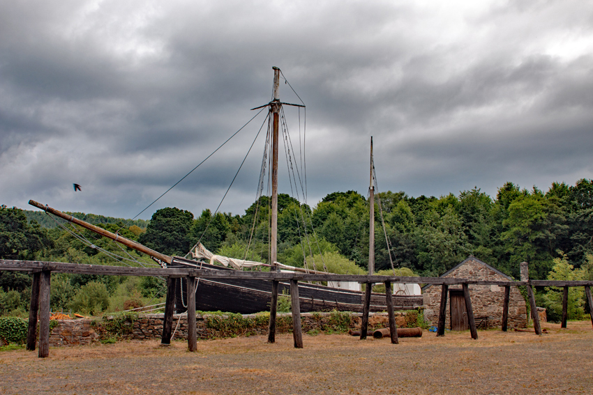 Preserved Tamar barge Garlandstone moored at Morwhellam Quay industrial museum.